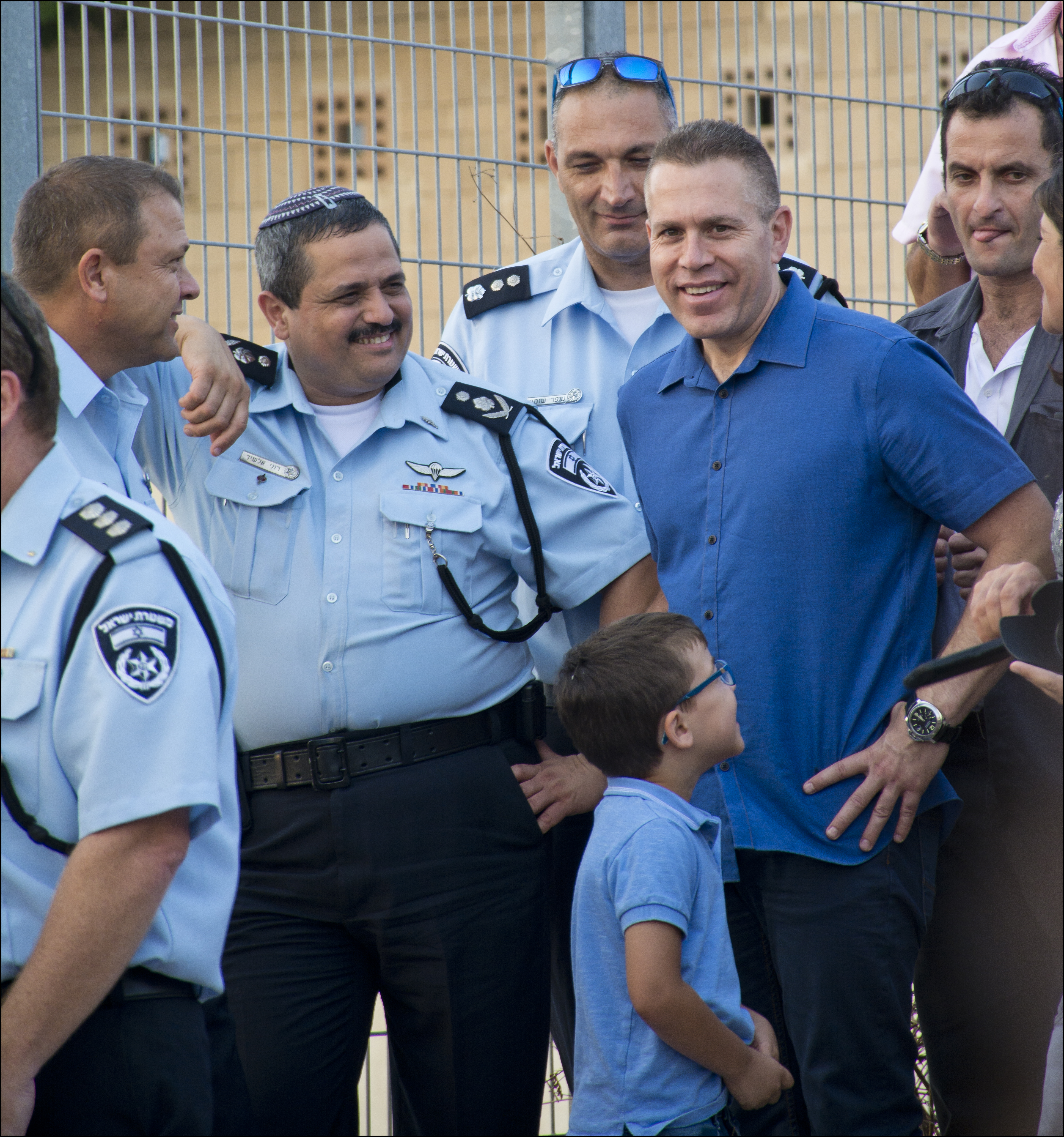 Gilad Erdan, Minister of Internal Security, and General Commissioner Roni Alsheikh, Israeli Police Open Day in Rishon LeZion